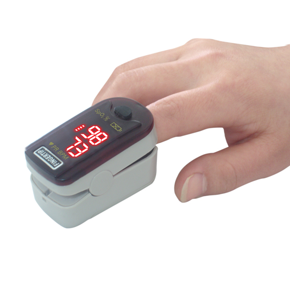 puls oxymeter